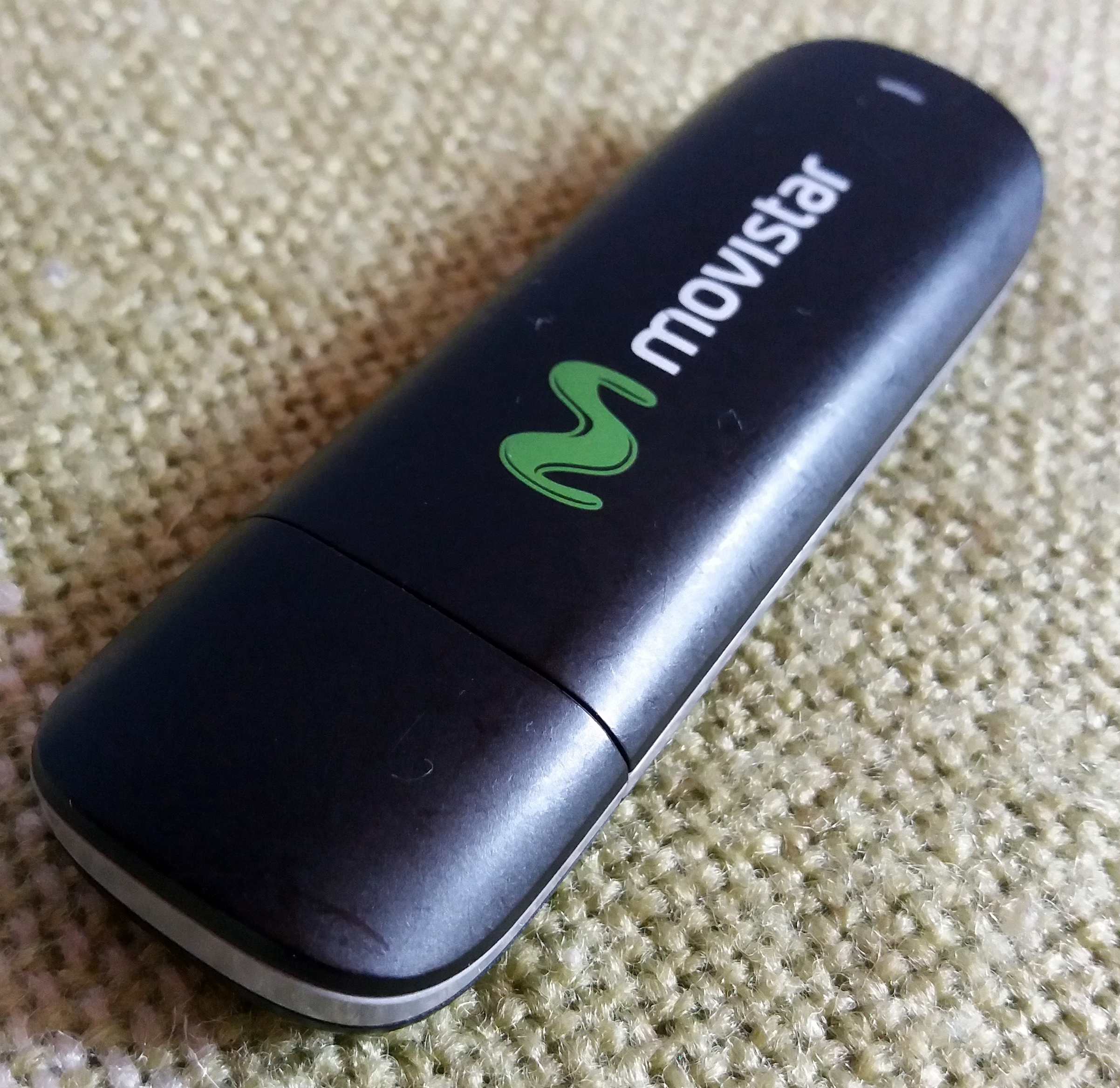 Top view of a USB modem Huawei E173 3G HSPA + from Movistar Colombia Mobile broadband